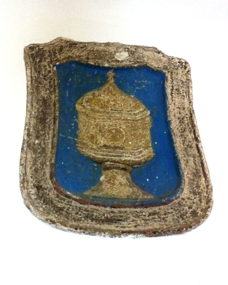 Coat of Arms of the Kingdom of Galicia inside the town hall of betanzos (Galicia, Spain).